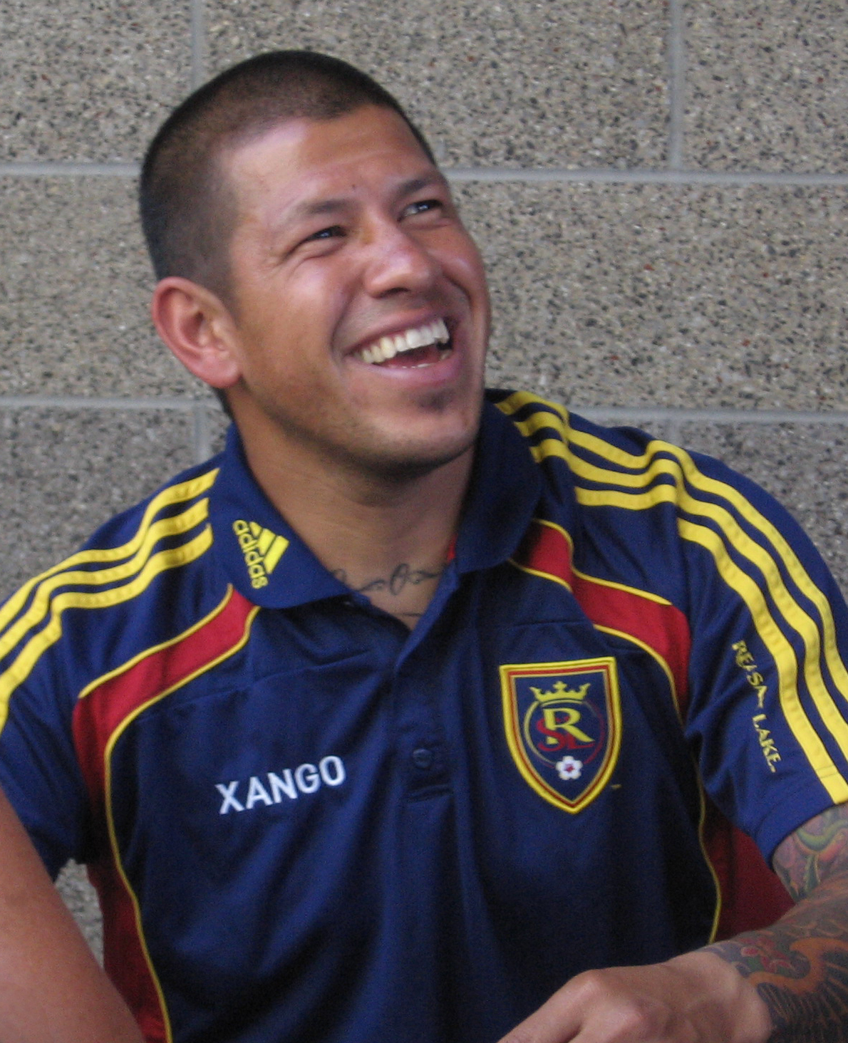 Nick Rimando of Real Salt Lake (RSL) football club (soccer), Major League Soccer (MLS), at a "Meet the Players" event. Held at Rio Tinto Stadium in Sandy, Utah, USA, on 21 Aug 2010.